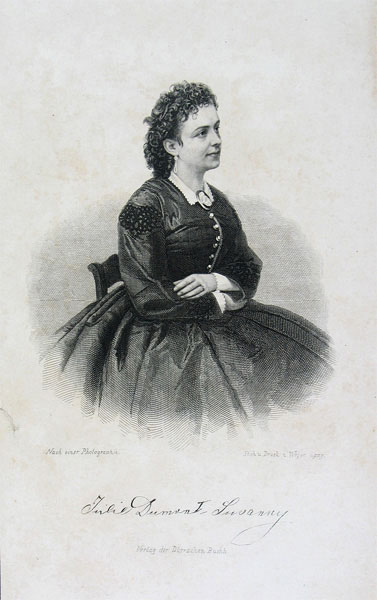 Lithography by August Weger made after a photographic portrait of Austrian opera and operetta singer Julie Suvanny (Swieceny), married Dumont, 1840-1872